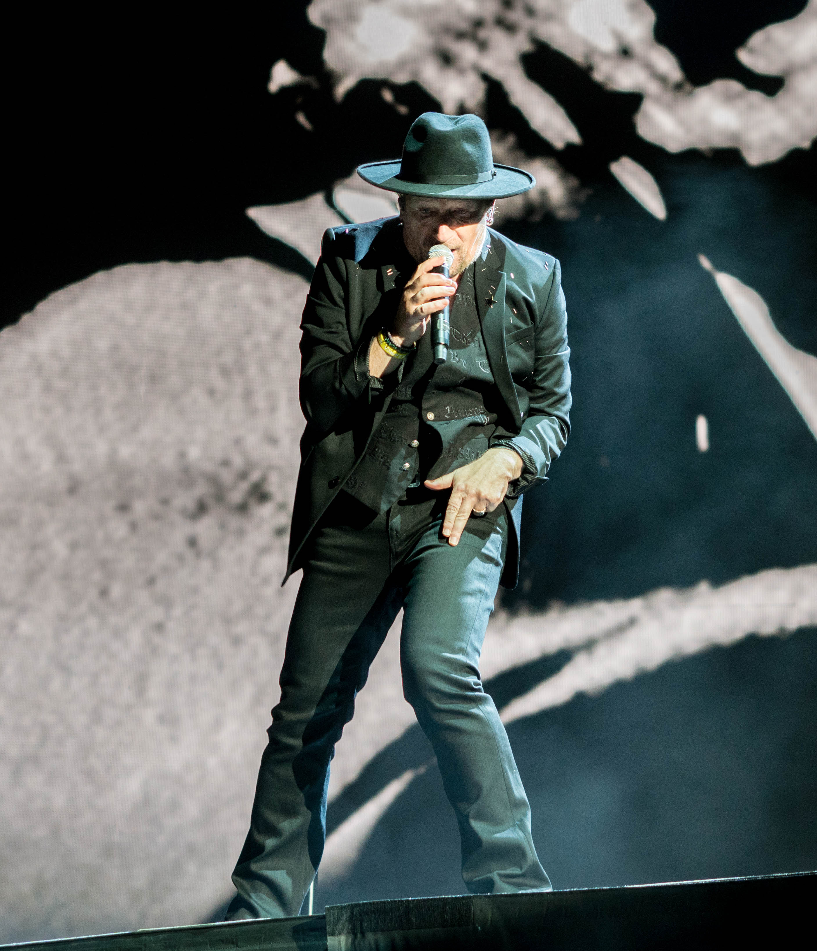 Bono portraying the "Shadow Man" during a performance of "Exit" during U2's Joshua Tree Tour 2017 at Levi's Stadium in Santa Clara, CA on May 17, 2017